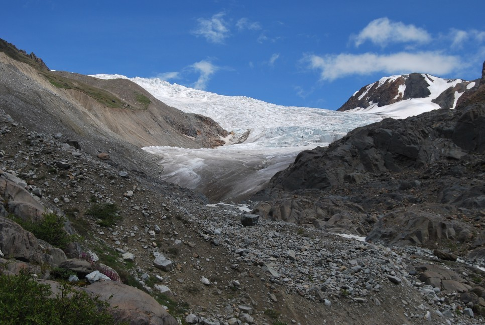 Laigu Glacier in Baxoi County, Tibet